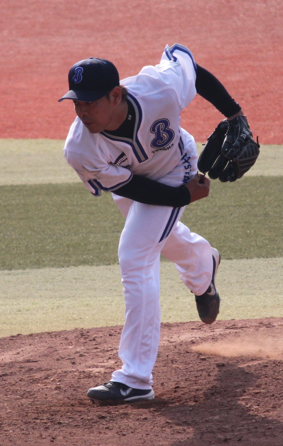 Naoyuki Shimizu, pitcher of the Yokohama BayStars, at Yokohama Stadium.